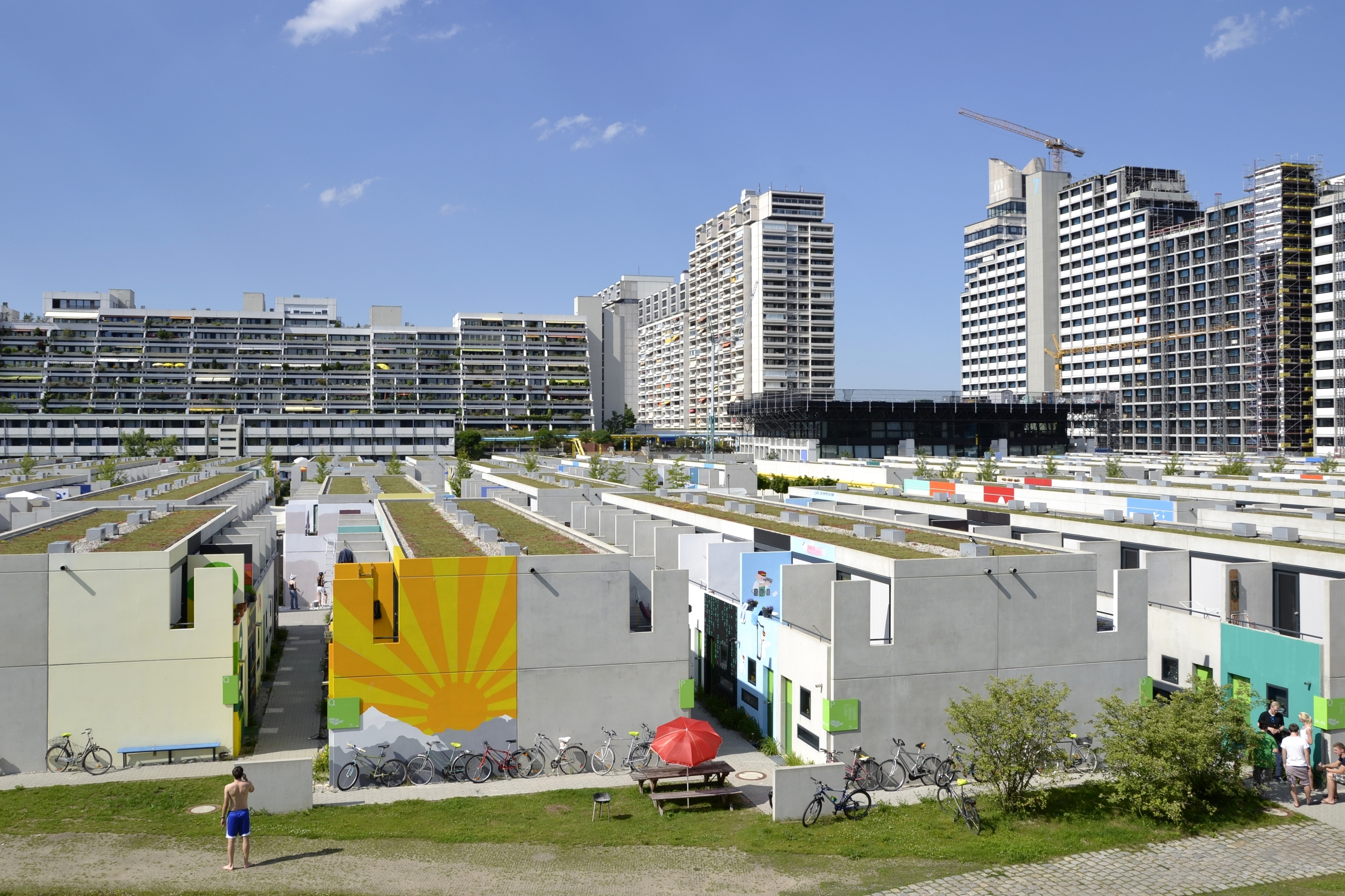 The Olympic Village in Munich in June 2012.